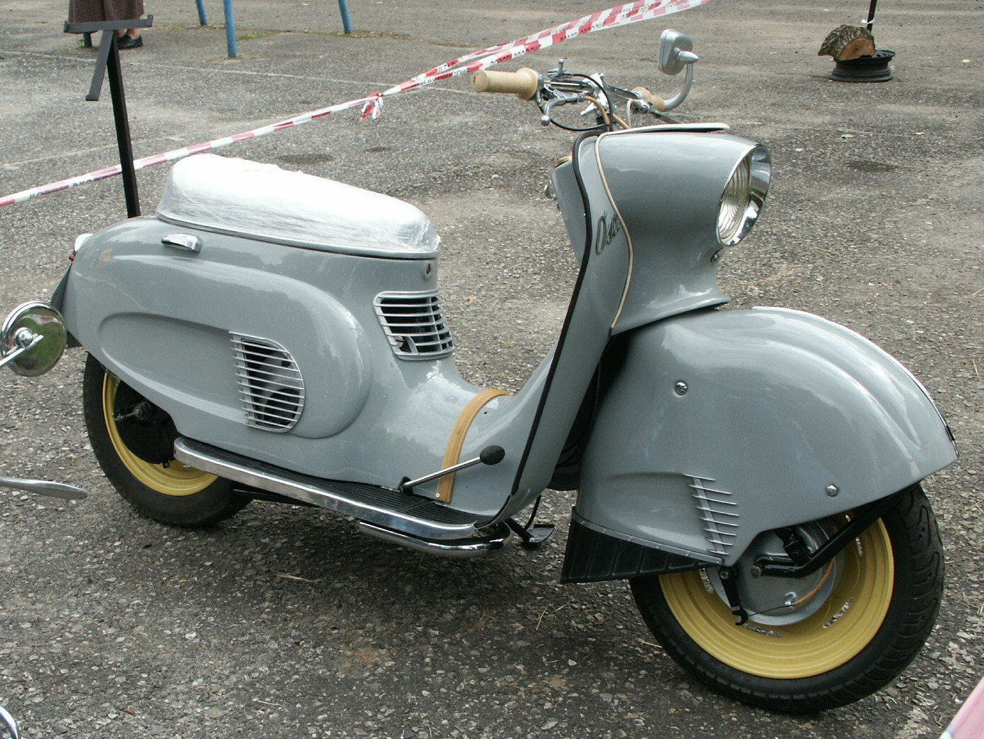 Polish WFM Osa (Wasp) M52 scooter.